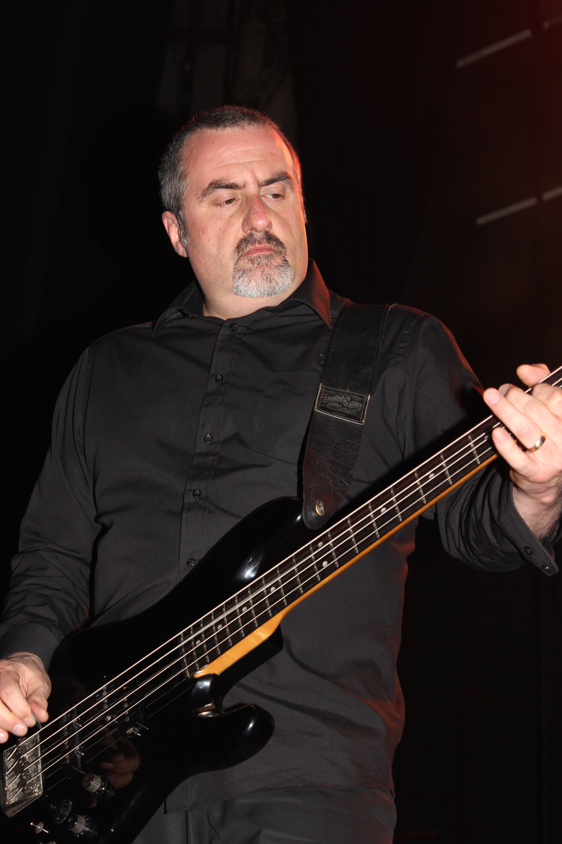 Godflesh @ Henry Fonda Theatre 4/22/14